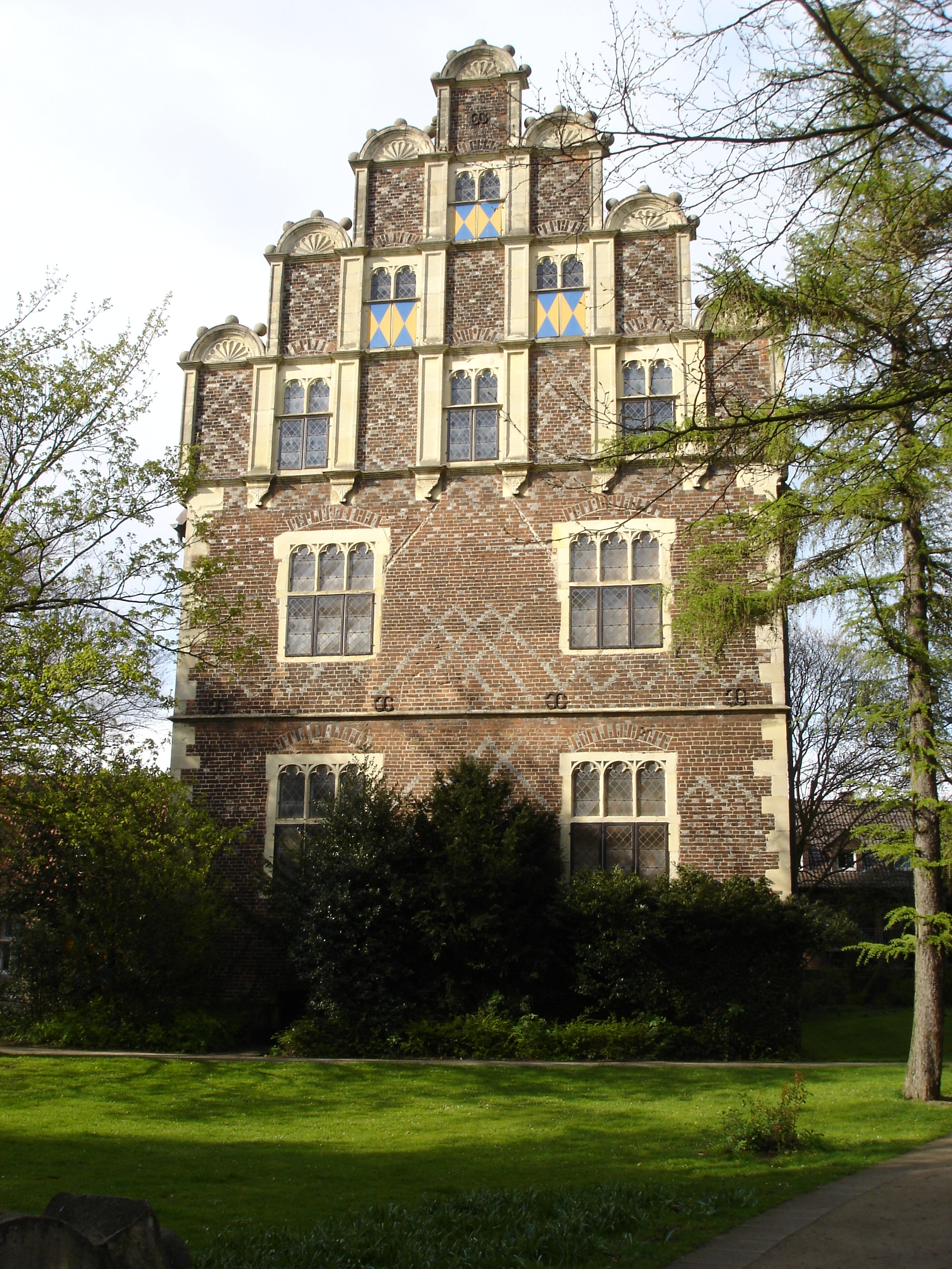 Gable of the "Drostenhof" in Wolbeck, borough of Münster, Westphalia, Germany